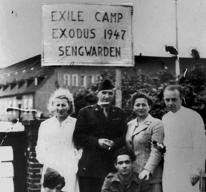 The entrance to the Sangwarden DP.camp 1947